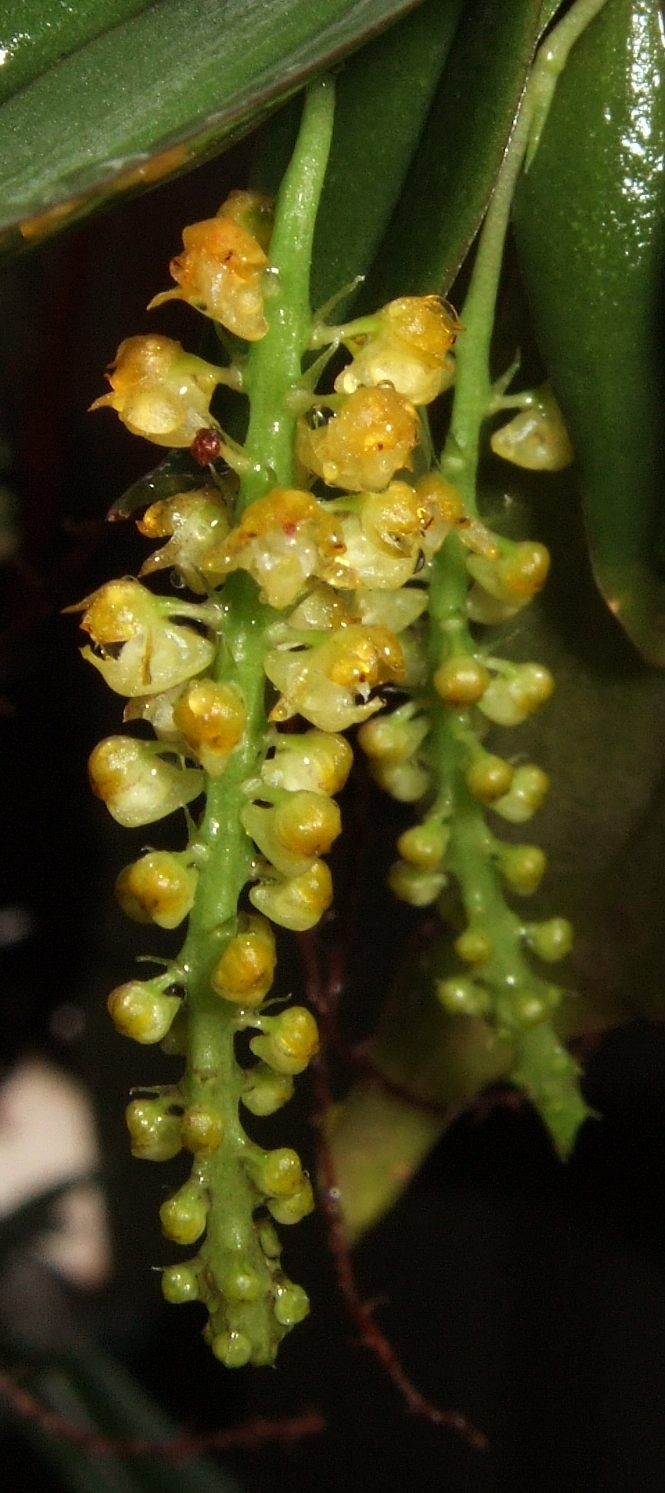 Abdominea minimiflora flower.